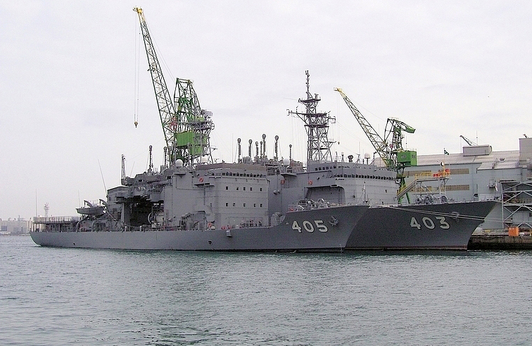 JS Chiyoda (AS-405) and JS Chihaya (ASR-403) moored to the side of Kawasaki HI Kobe Shipyard.